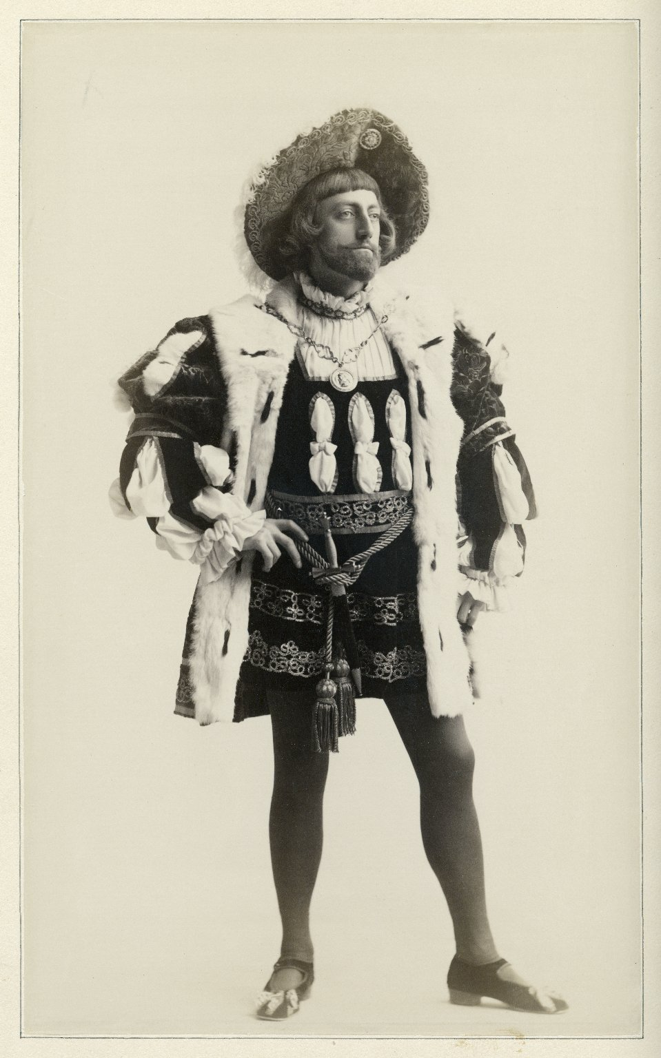 A photograph of John Drew as the King of Navarre in Augustin Daly's production of Love's Labour's Lost.